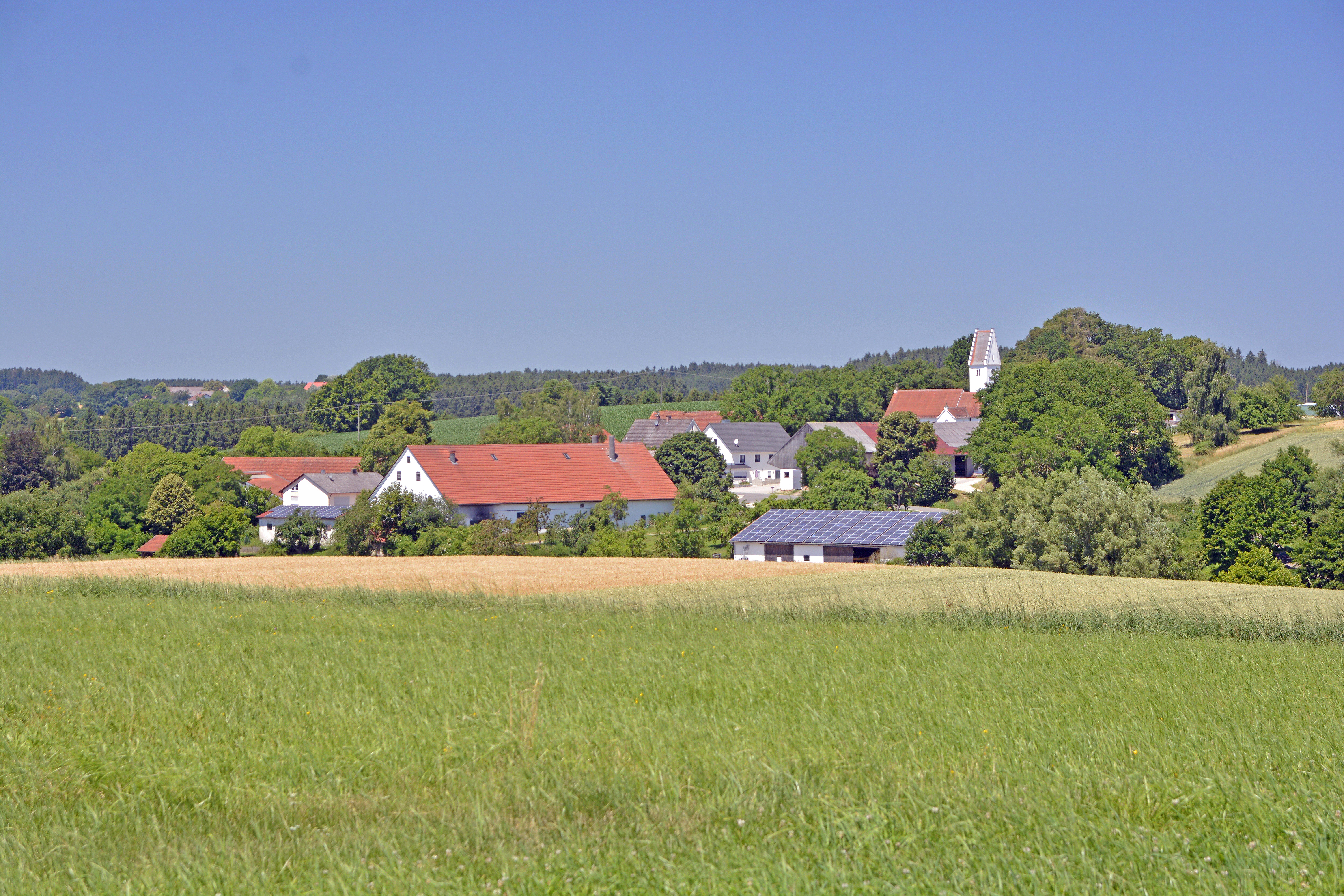 Haag near Altomünster (Upper Bavaria)